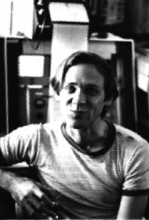 Picture of Donald C. Backer circa 1968.